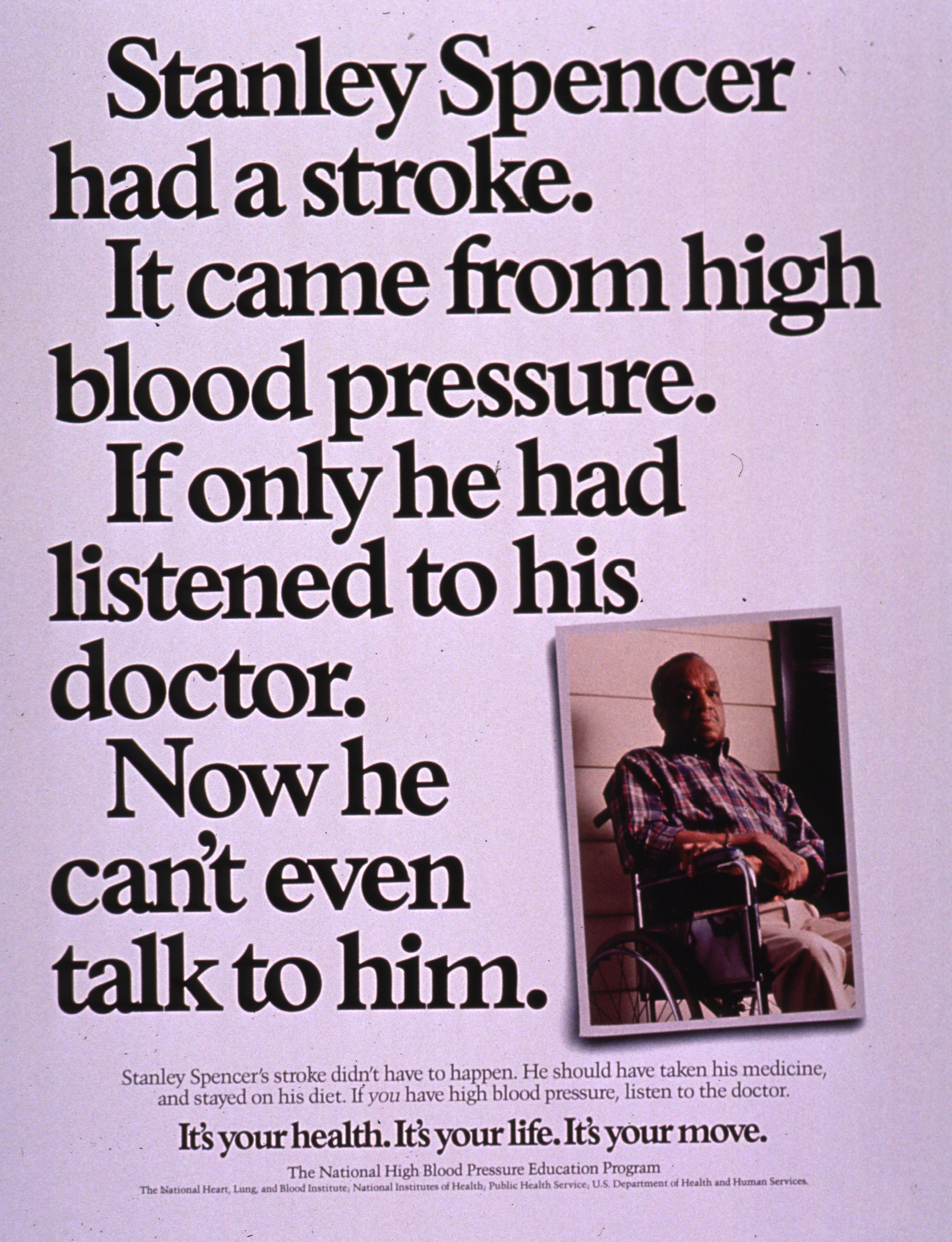 Contributor(s): National High Blood Pressure Education Program. Publication: [Bethesda, Md.] : National High Blood Pressure Education Program, National Heart, Lung, and Blood Institute, National Institutes of Health, Public Health Service, U.S. Dept. of Health and Human Services, [19--] Language(s): English Format: Still image Subject(s): Hypertension -- complications Hypertension -- therapy Stroke -- etiology Patient Compliance Genre(s): Posters Abstract: Predominantly white poster with black lettering. Title dominates poster. Visual image is a color photo reproduction featuring a man sitting in a wheelchair. Caption below photo; note below caption. Publisher information at bottom of poster. Extent: 1 photomechanical print (poster) : 56 x 44 cm. Technique: color NLM Unique ID: 101450513 NLM Image ID: A031974 Permanent Link